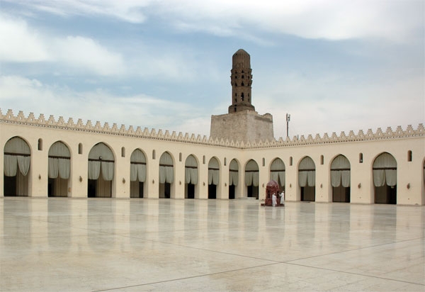 Al-Hakim Mosque. Cairo. Egypt